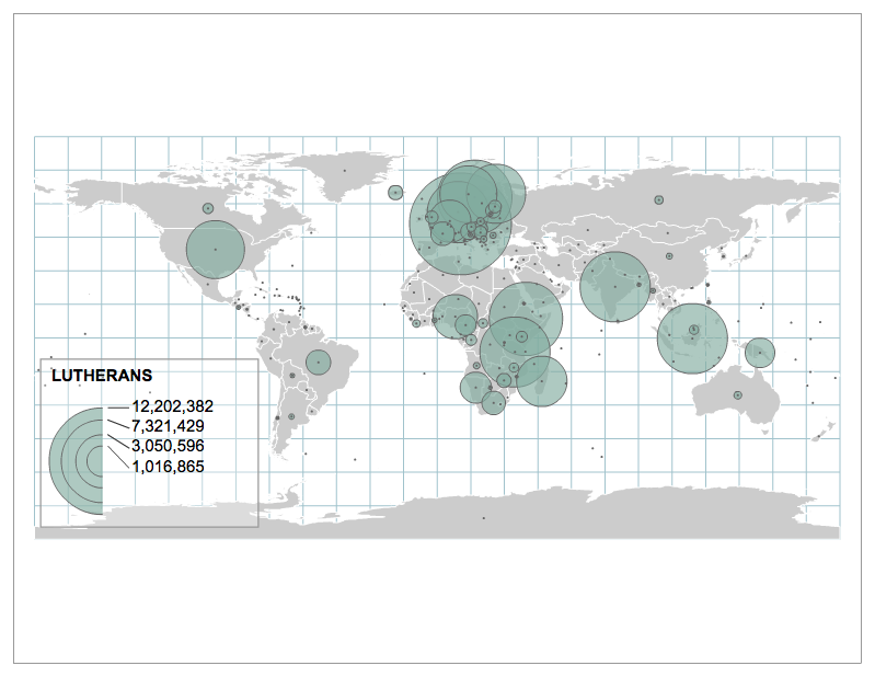 Membership of churches belonging to Lutheran World Federation in 2013